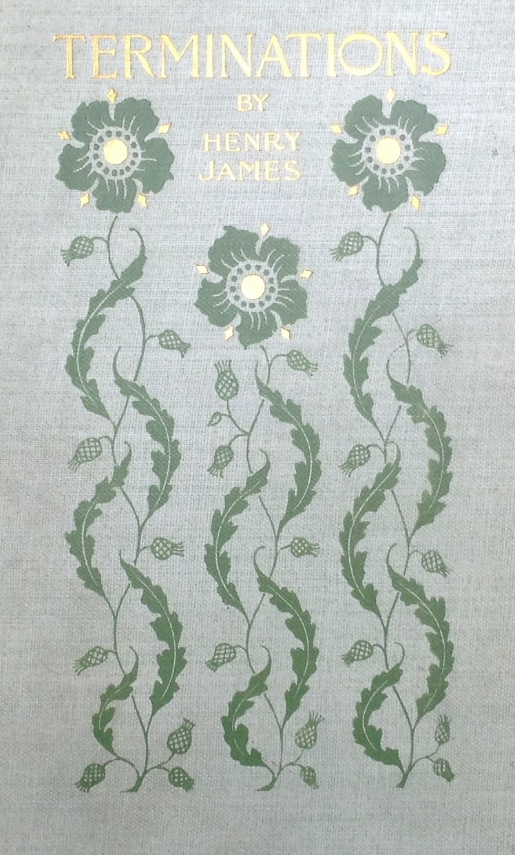 cover of Terminations by Henry James (U. S. First Edition, New York: Harper & Brothers Publishers, 1895); the first hardcover appearance of three stories, "The Death of the Lion", "The Coxon Fund", and "The Middle Years", and the first edition in any format of "The Altar of the Dead"